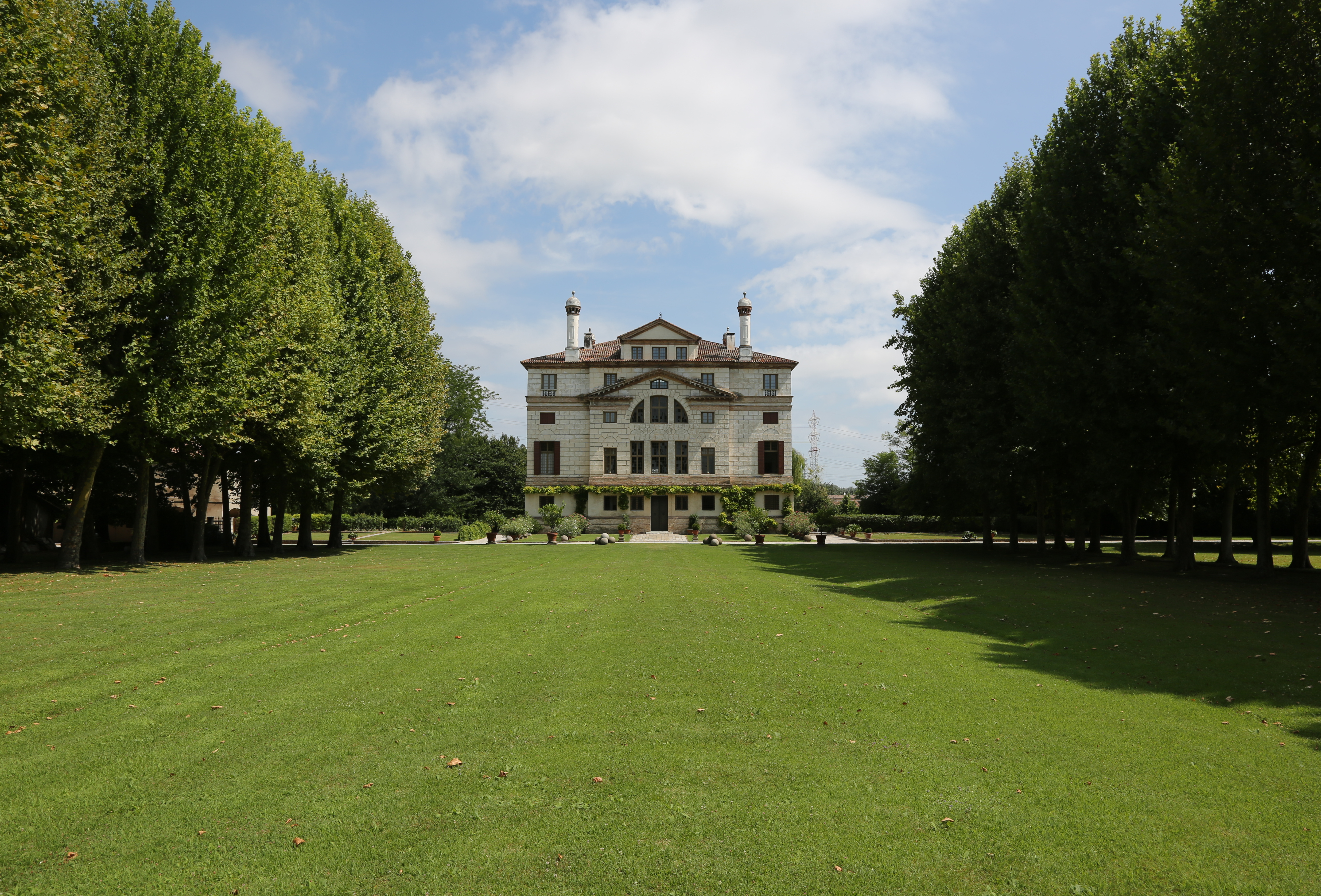 Villa Foscari, also called La Malcontenta, in Mira near Venice. Seen from the back.